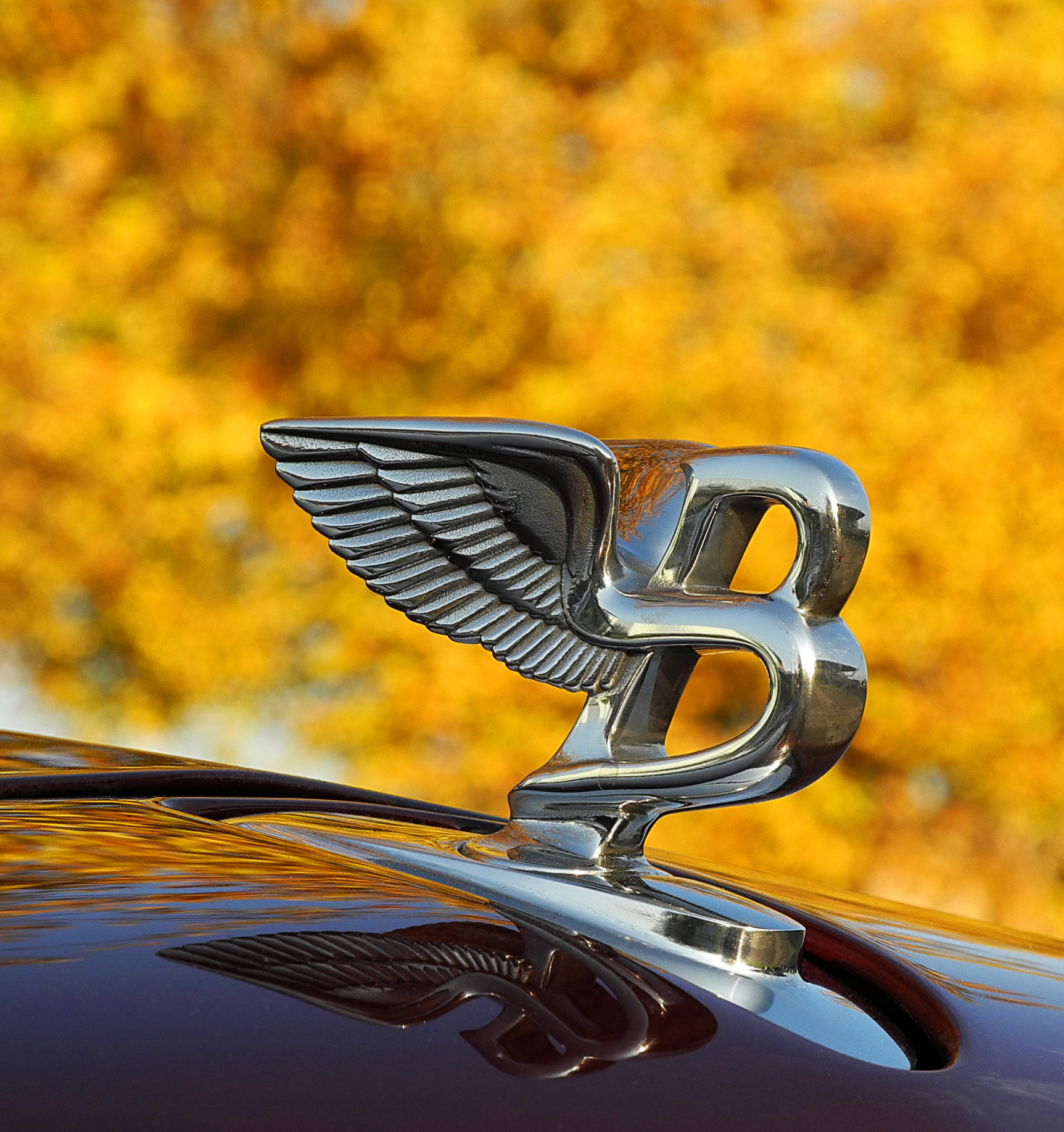 Bentley Arnage R Mulliner (Facelift).